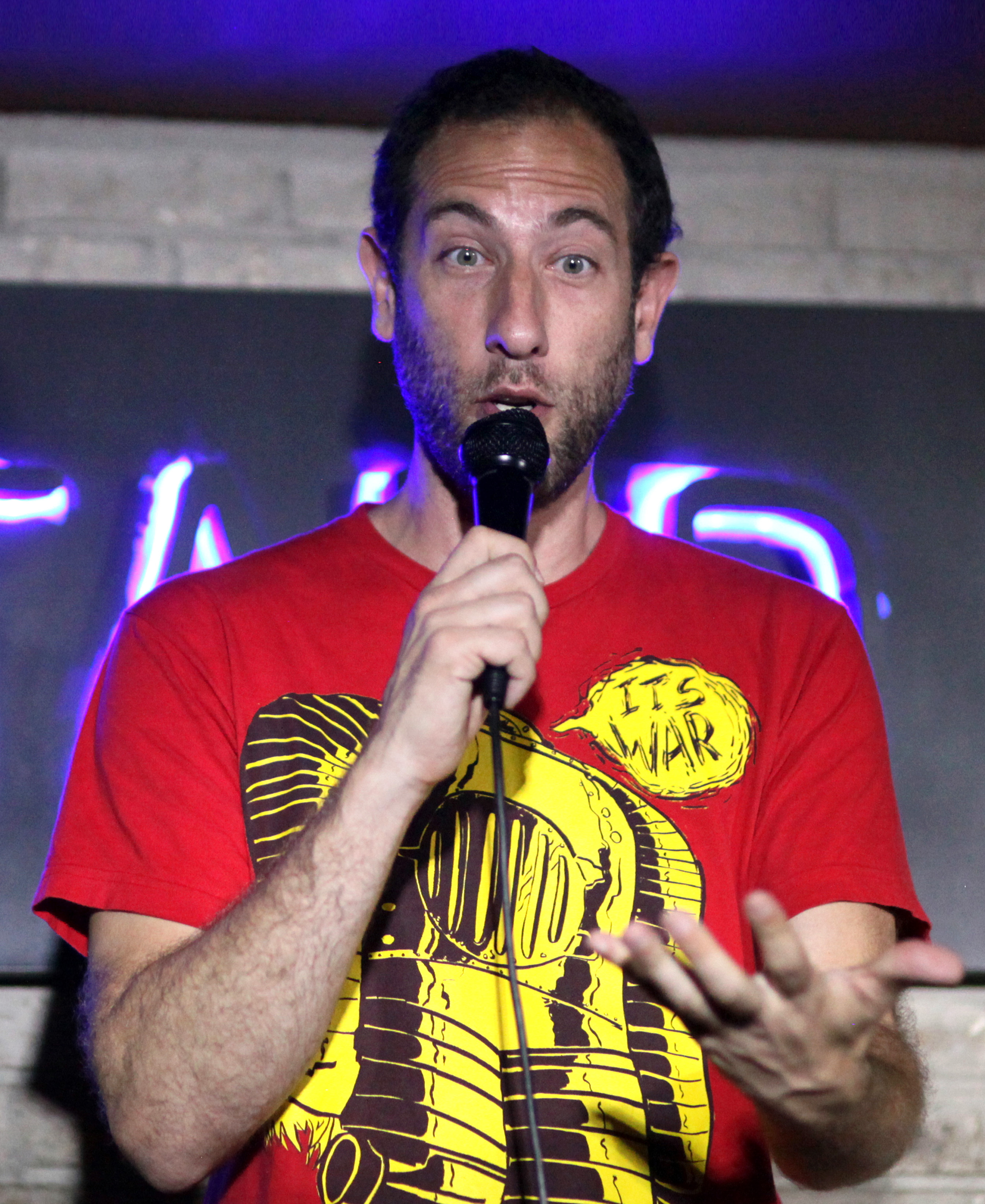 Shaffir performing at The Stand in July 2016.